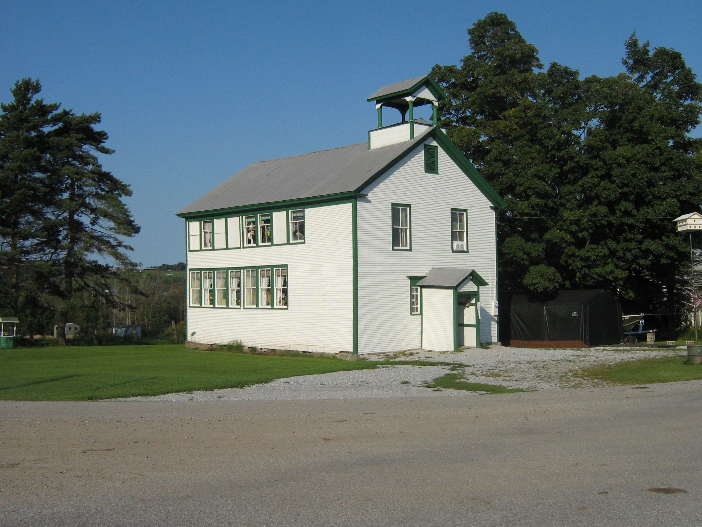 West Berkshire School, Berkshire, Vermont. Former one-room schoolhouse is now privately owned containing a retail shop.